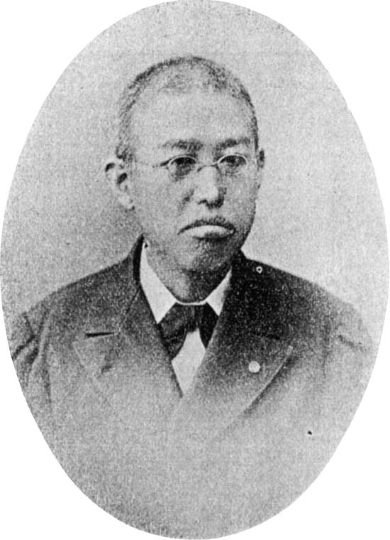 Mr. Shinji Tsuji, president of the Japanese Education Association.